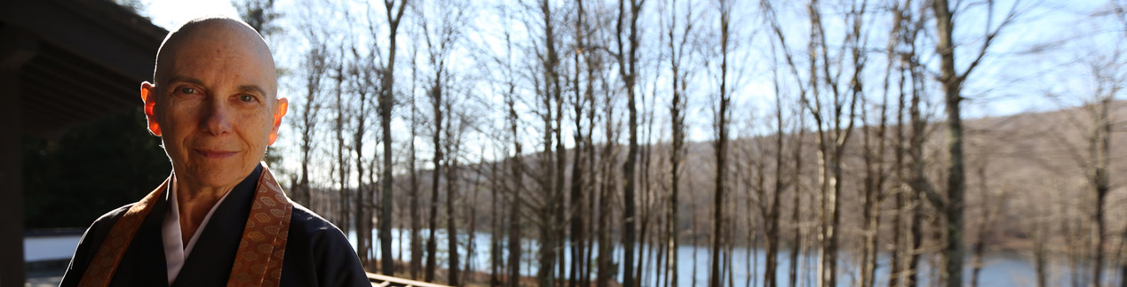 Pic of Shinge Roshi Sherry Chayat